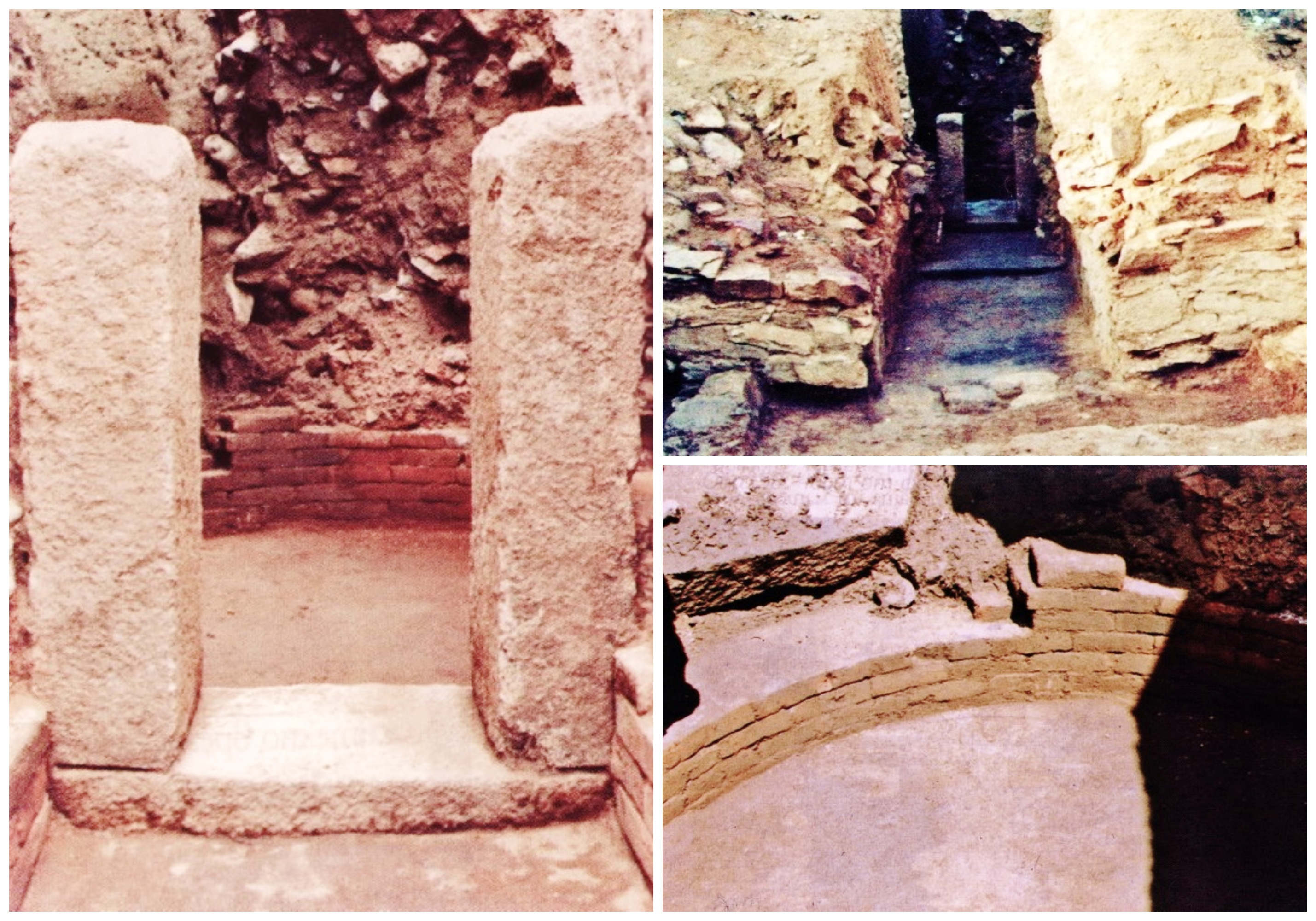 Kesteleva tomb Maglidzh BG